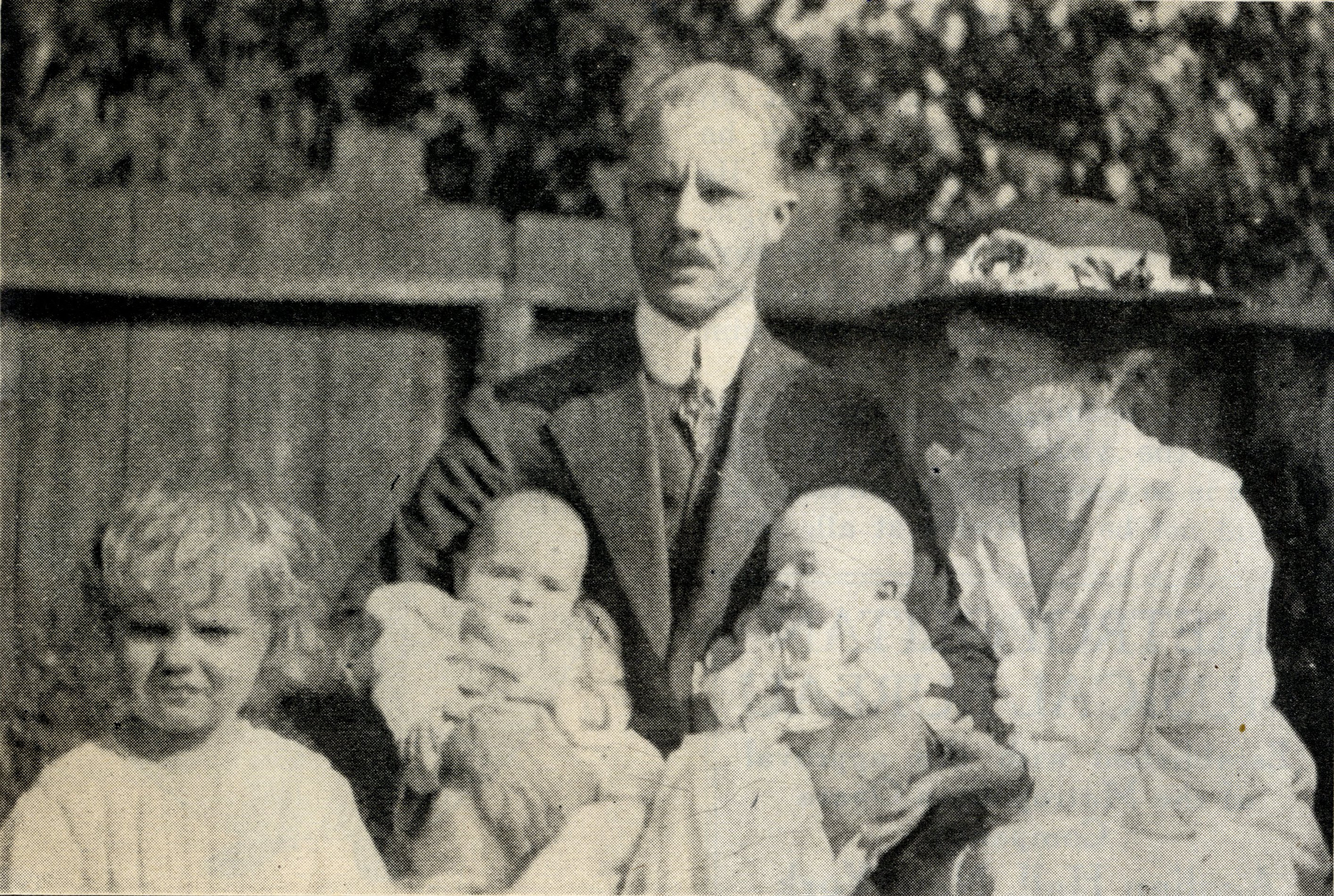 Composer Stanley R. Avery with his family in Minneapolis, in summer 1918